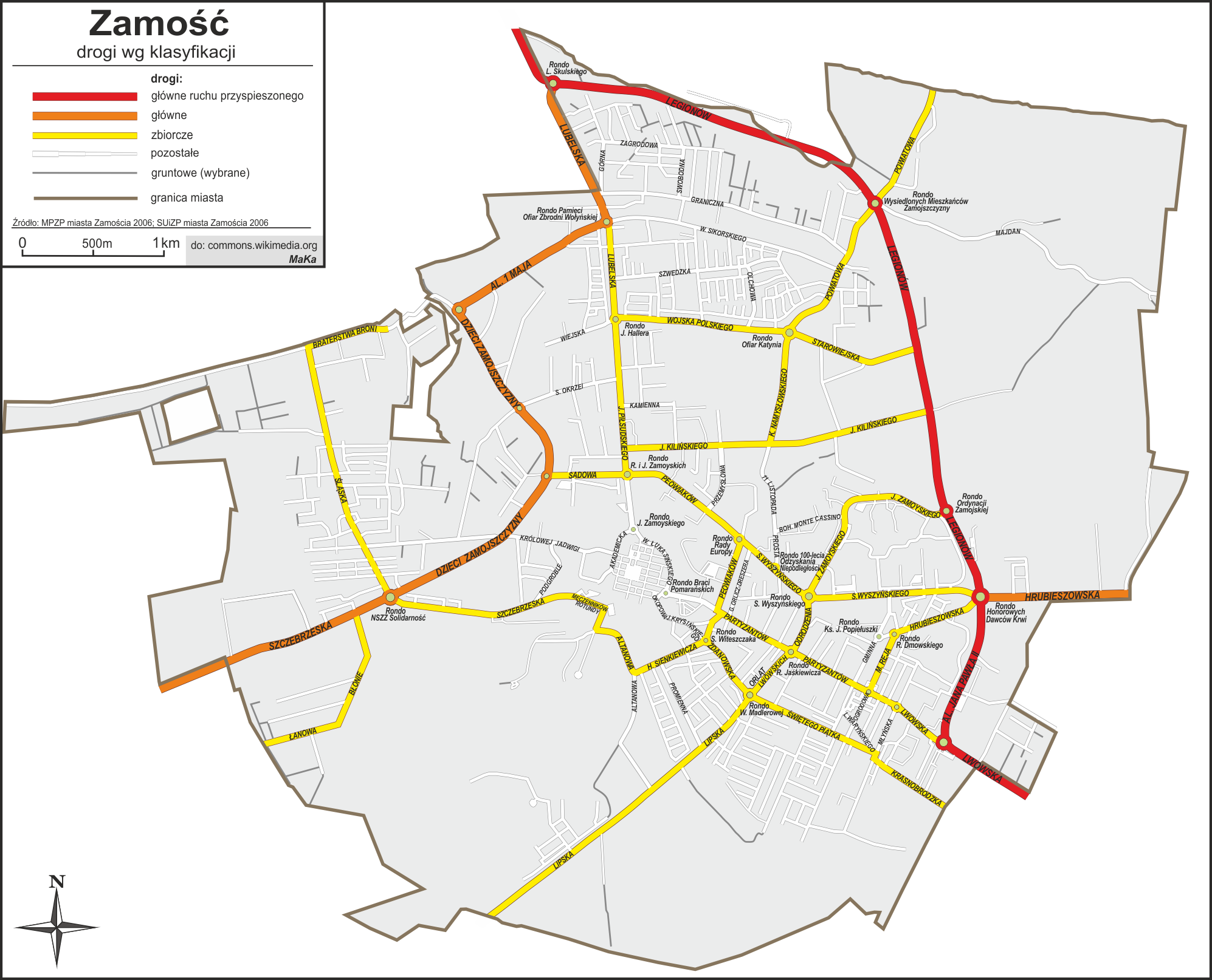 Plan of Zamość with streets by classification